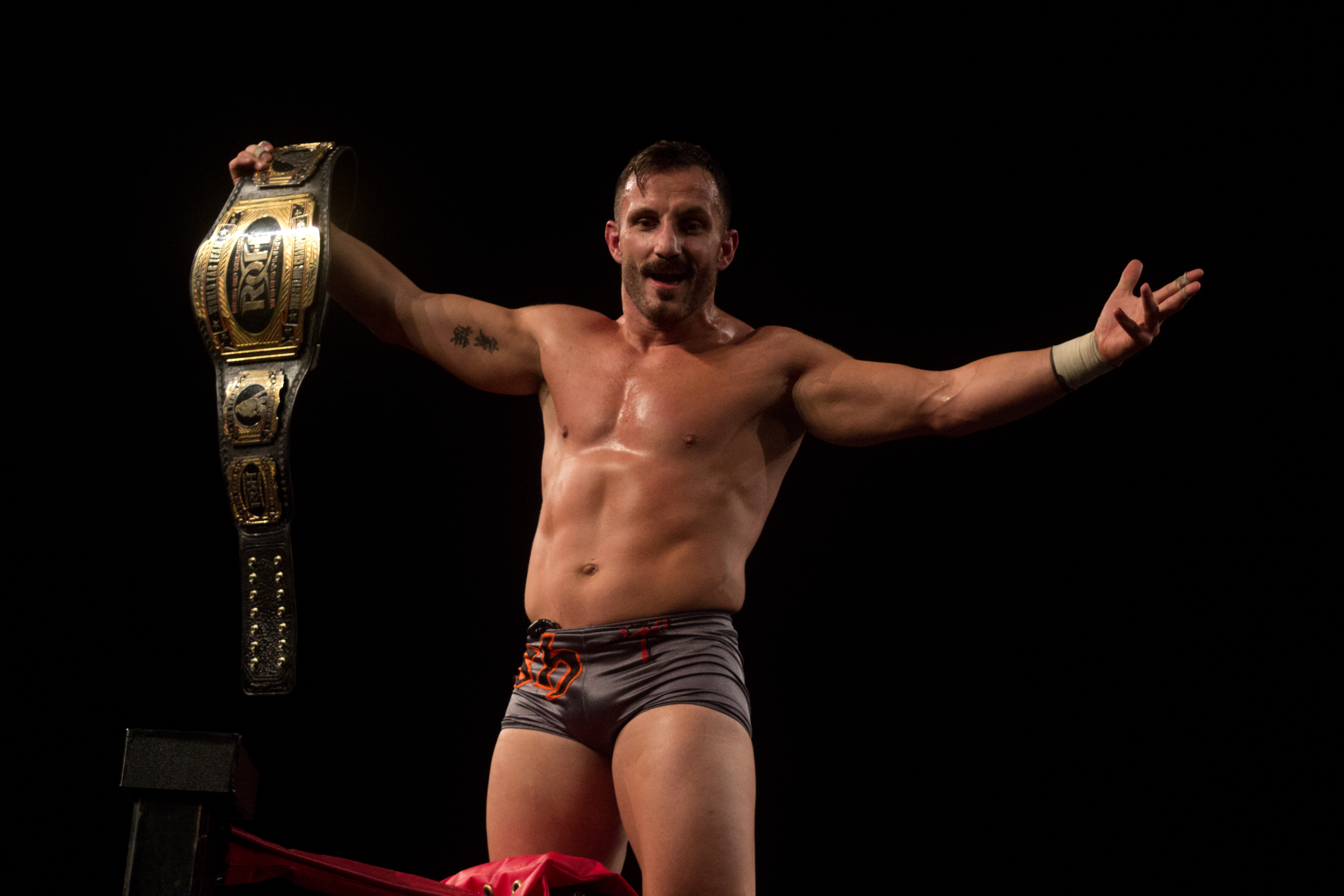 Bobby Fish showing off the ROH World Tag Team Championship at a Ring of Honor show in September 2013.